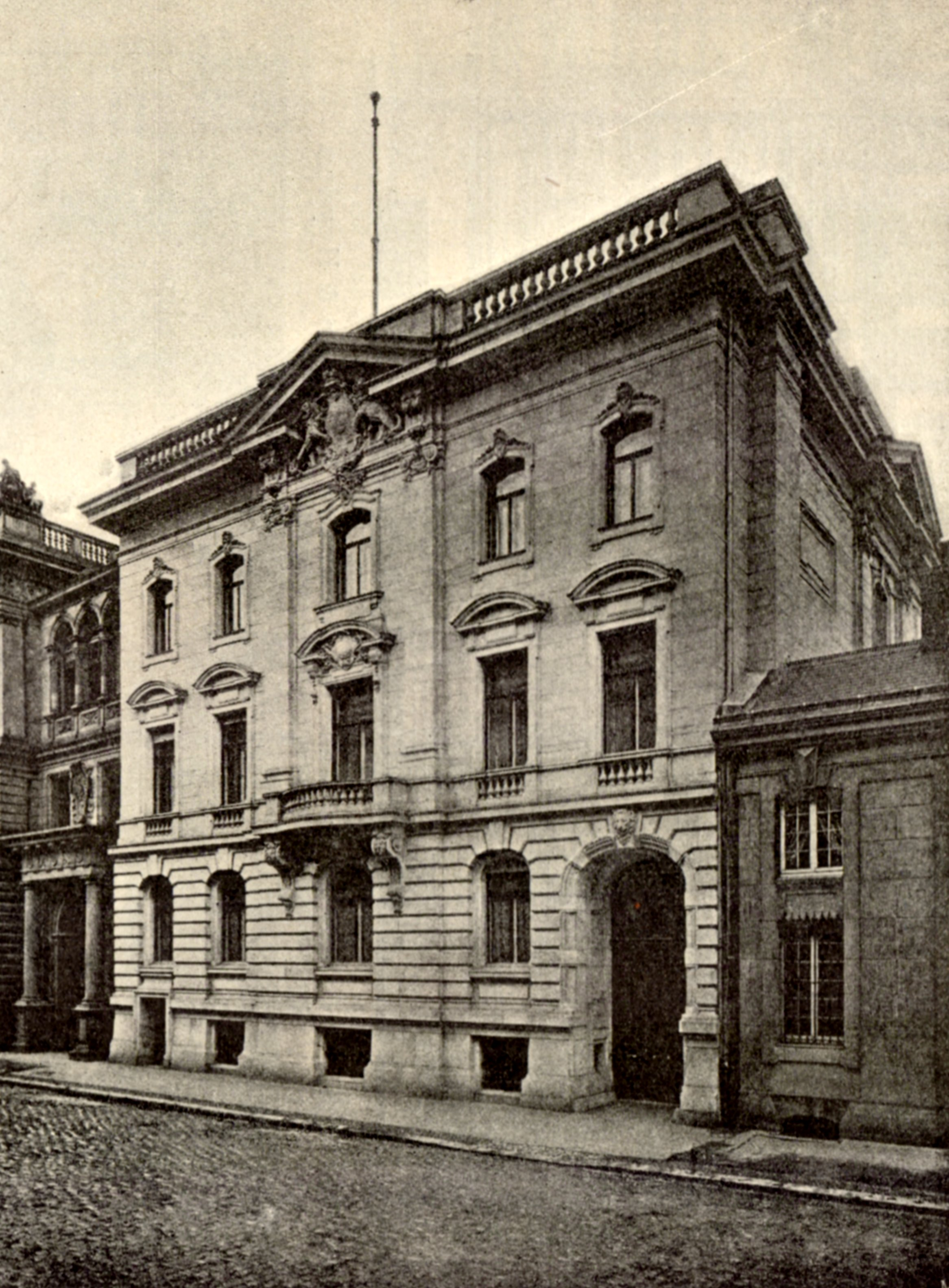 Berlin - Bavarian embassy, Voßstraße 3 (1896)